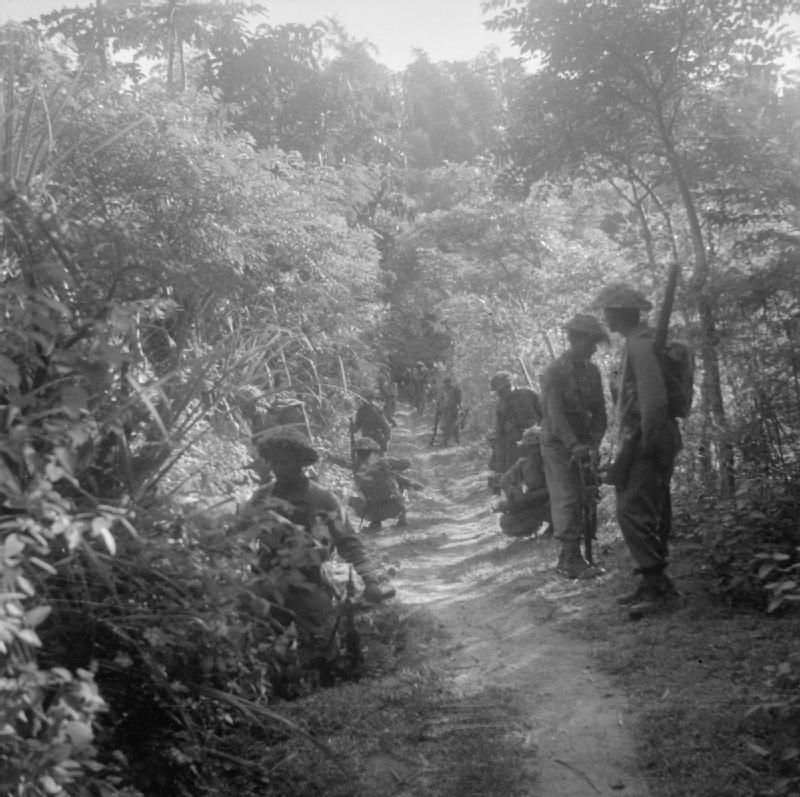 The British Occupation of Java Members of a company sized patrol from the 24th Indian Mountain Battery (5th Indian Division) move cautiously along a jungle track towards the village of Sidomoekto, where they came under fire from Indonesian nationalist snipers, during a reconnaissance of territory around the town of Grissee.